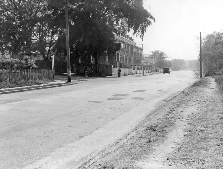 Cook Terrace, Coronation Drive, Milton, Brisbane. (Black and white photograph attached to the inquest file as Exhibit No.10.)